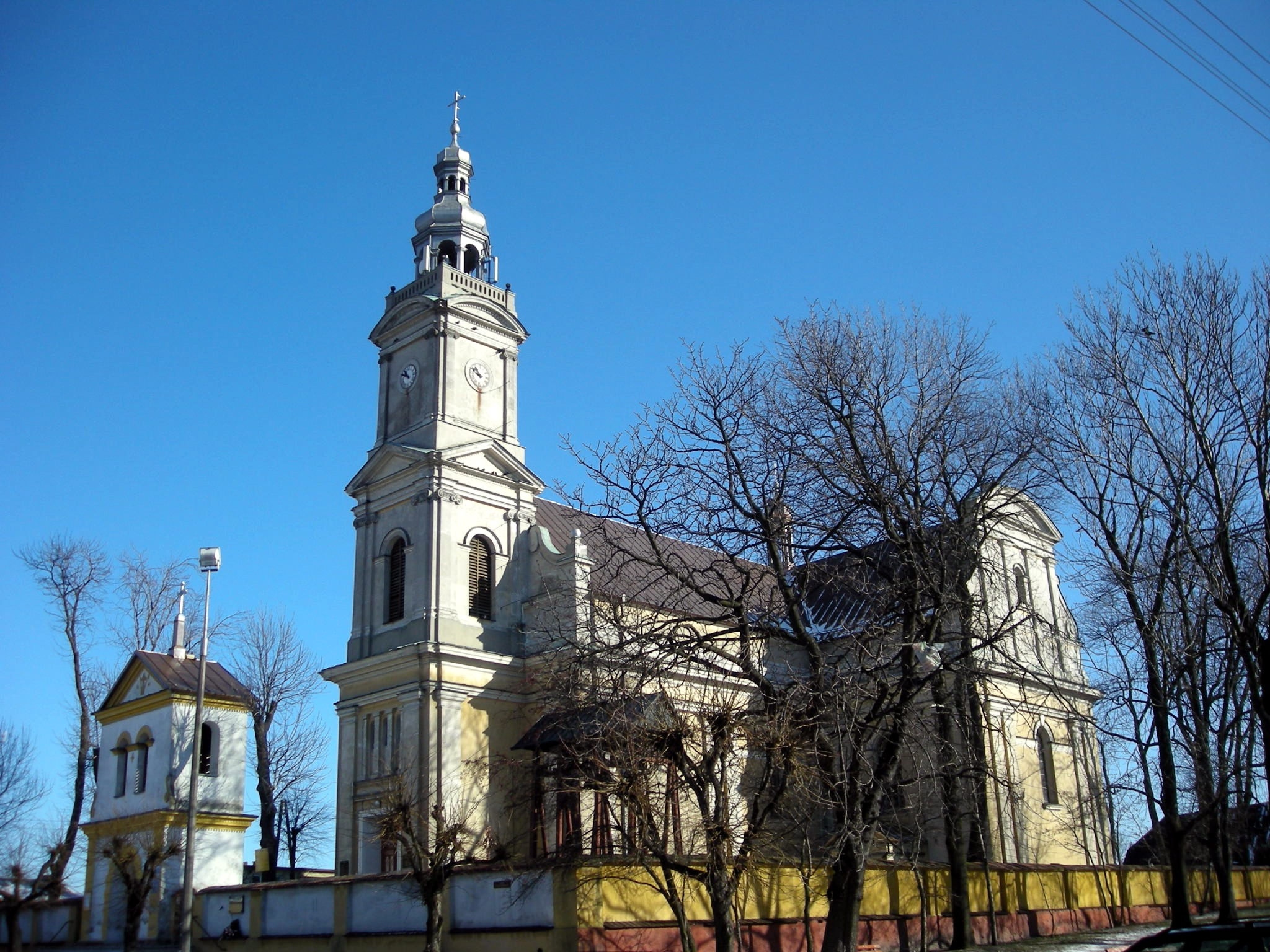 The church in Dobra, Poland.